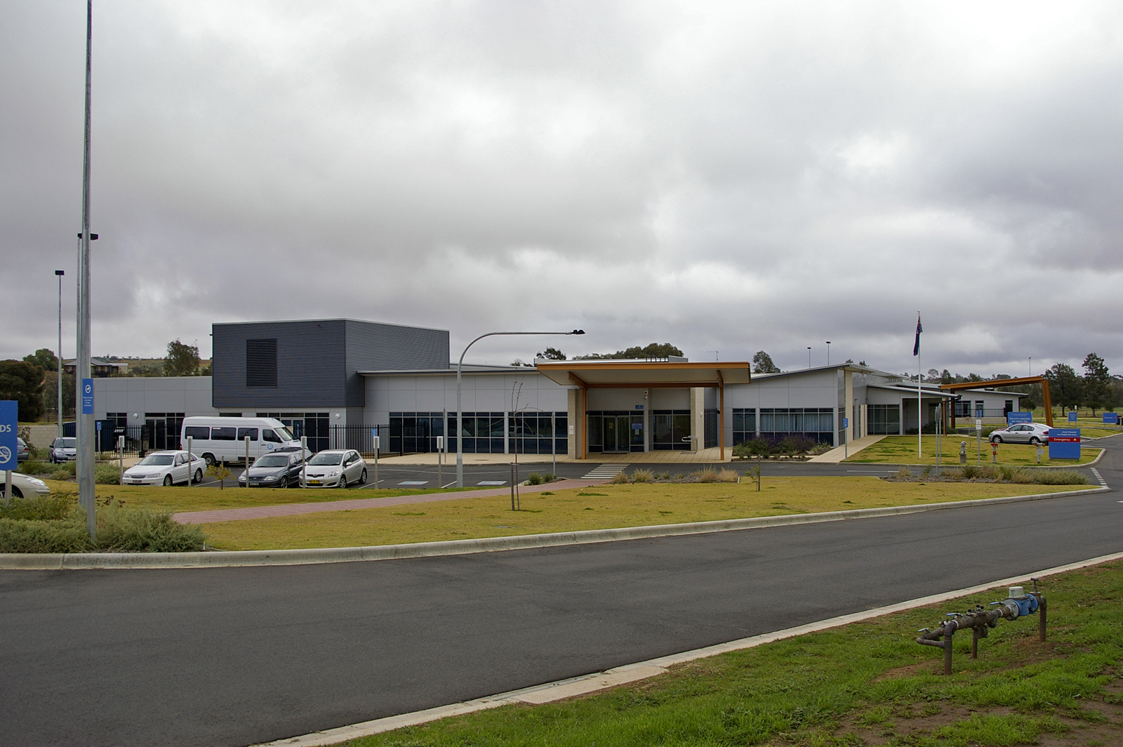 Junee Hospital & Health Services (MPS) which was opened in 2008.